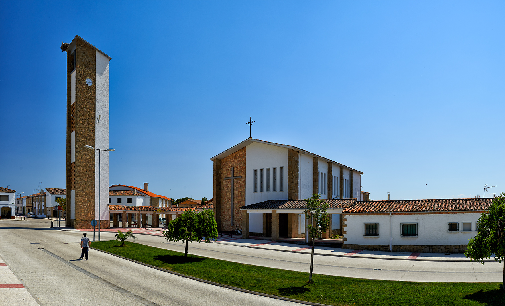 Parish church of Rada (Navarra, Spain)